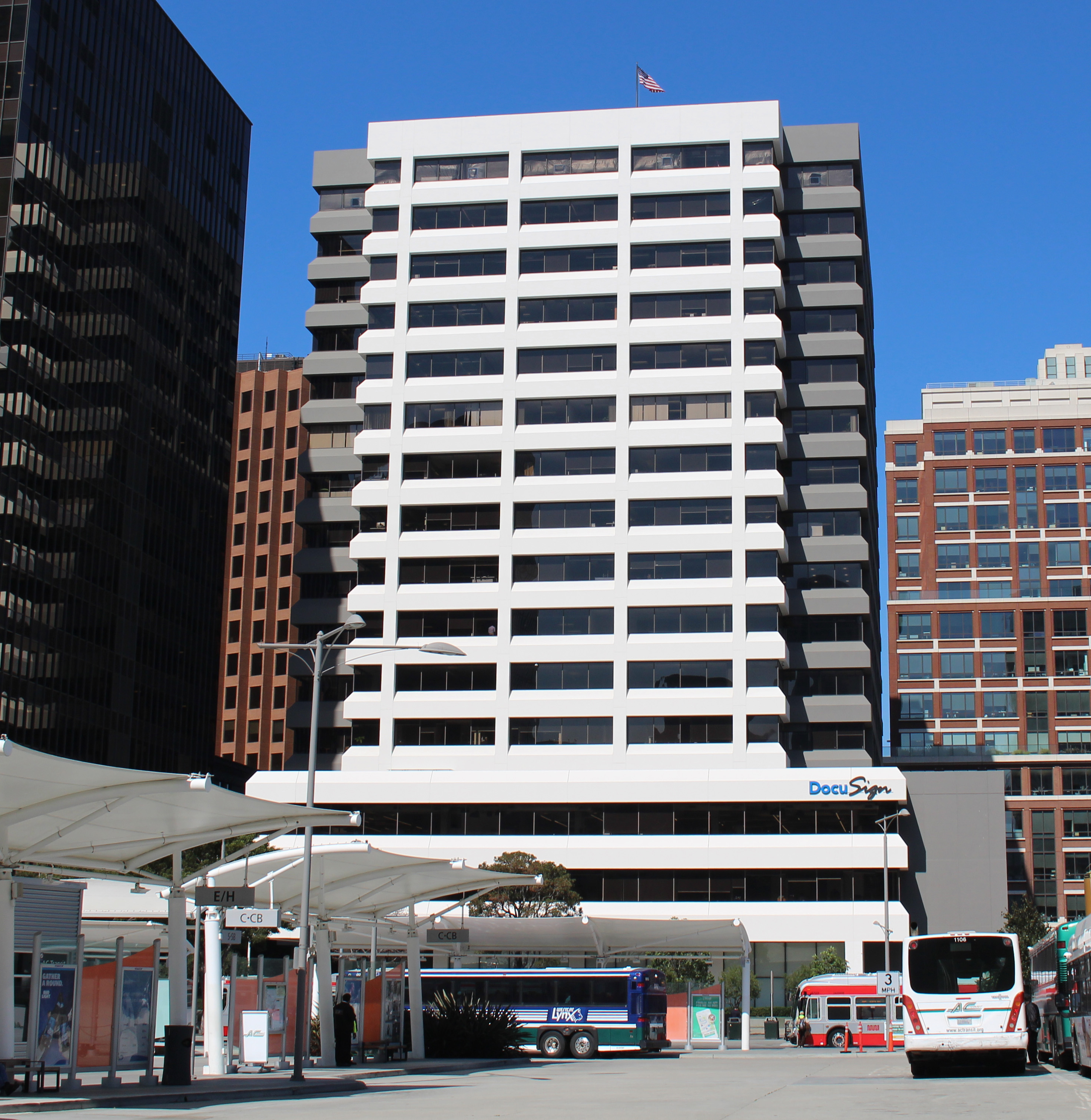 DocuSign headquarters in San Francisco, California. Photographed on August 22, 2017 by user Coolcaesar.